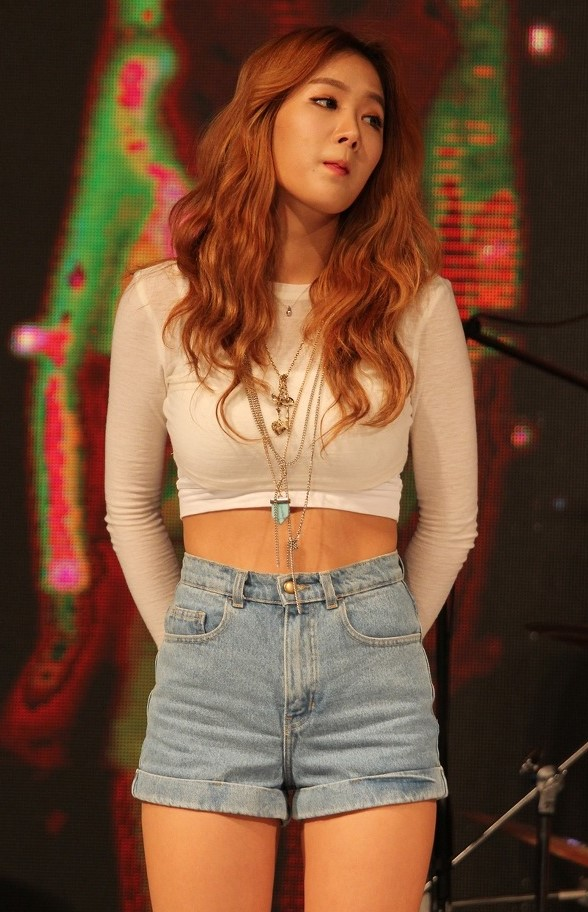 Soyou at Hanyang University Festival on September 24, 2014.